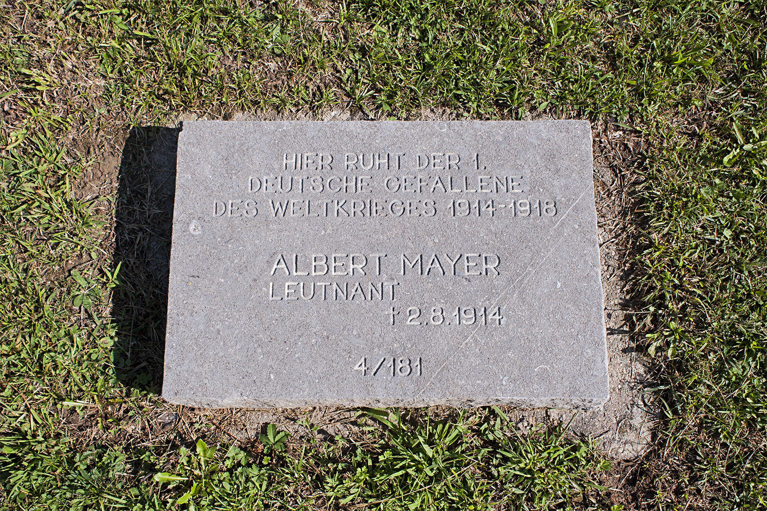 Gravestone of the first german KIA (Lieutenant Albert Mayer, † 2 August 1914 during a patrol ride near Delle) on the western front in WW I; German war cemetery Illfurth; Haut-Rhin, France.